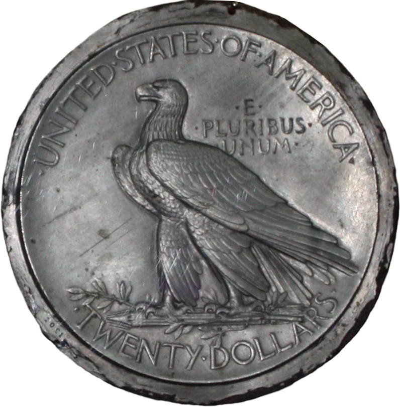 Metal "sketch" by Augustus Saint-Gaudens of an early version of the double eagle design, later adapted for the eagle.